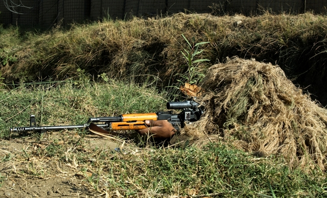 An Afghan National Army Soldier practices maneuvering in a 'ghillie-suit,' as part of a sniper training class, hosted by U.S. Army Soldiers from Company C, 2nd Battalion, 12th Infantry Regiment, at Combat Outpost Honaker-Miracle, in Afghanistan's Kunar province, Nov. 1, 2009. Training classes like this one are often held by the 4th Infantry Division Soldiers, who have been working closely with their Afghan National Army counterparts since arriving in June. (U.S. Army Photo by Sgt. Matthew Moeller/Released)